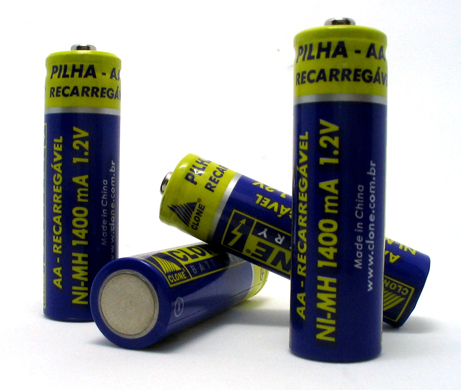 For NiMH AA batteries.